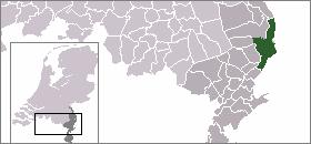 Location of Venlo